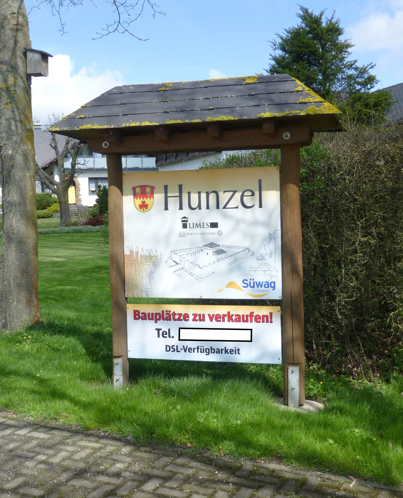 Panel at Hunzel, located on the Roman limes, Rhein-Lahn-Kreis.